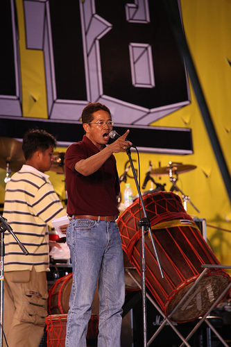 Praphan Koonmee (ประพันธ์ คูณมี) at a People's Alliance for Demecracy protest at Thai Government House